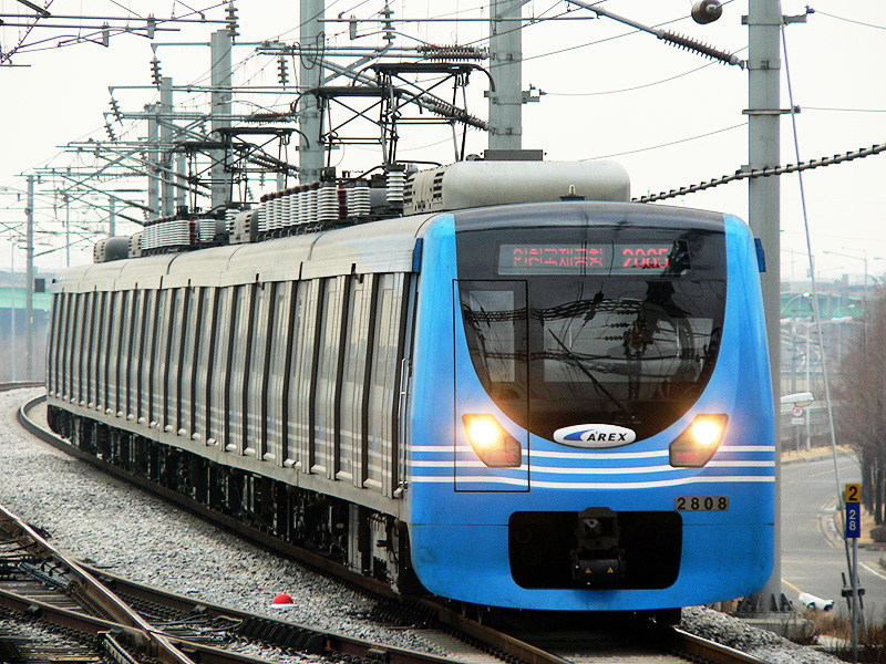 A'REX(Incheon Int'l Airport Railroad) 2000series EMU